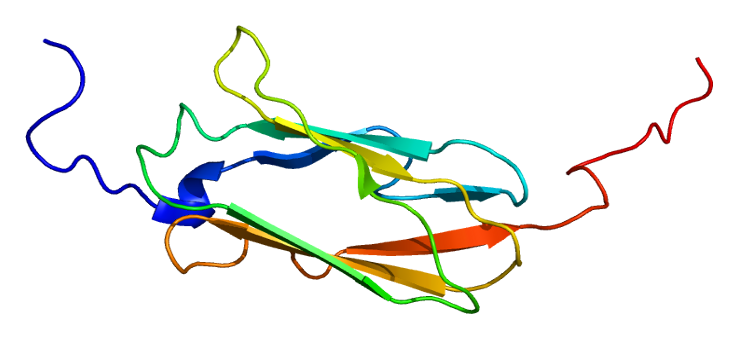 Structure of the FLNB protein. Based on PyMOL rendering of PDB 2di8.